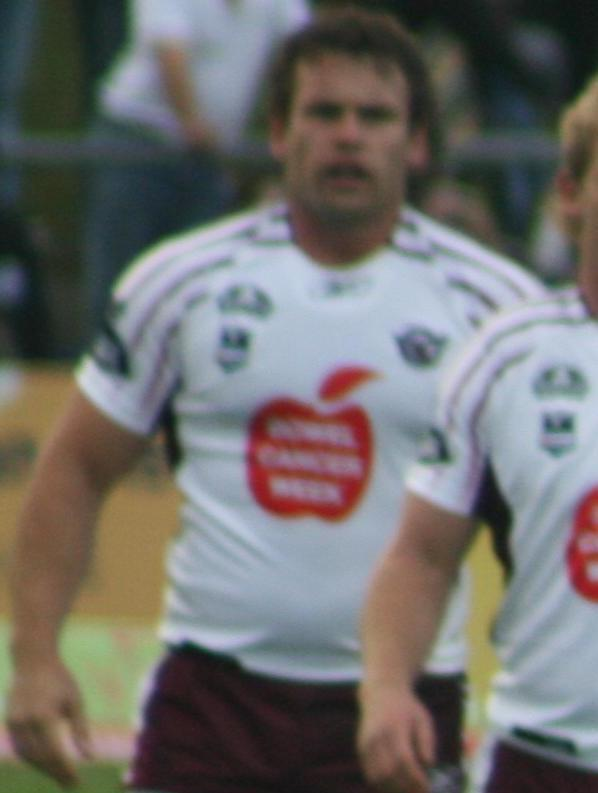 picture of a tackle in rugby league - manly sea eagles vs roosters in june 08, brookie oval, sydney, australia. Eagles won 42-0 (hooray!)